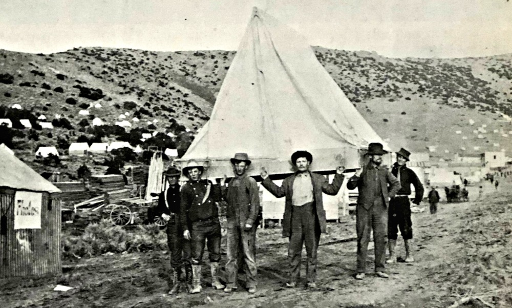 Moving a miner's tent home, Rochester, Nevada, c 1913